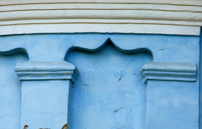 Facade element in the Church of Lutsk Orthodox Fellowship of True Cross